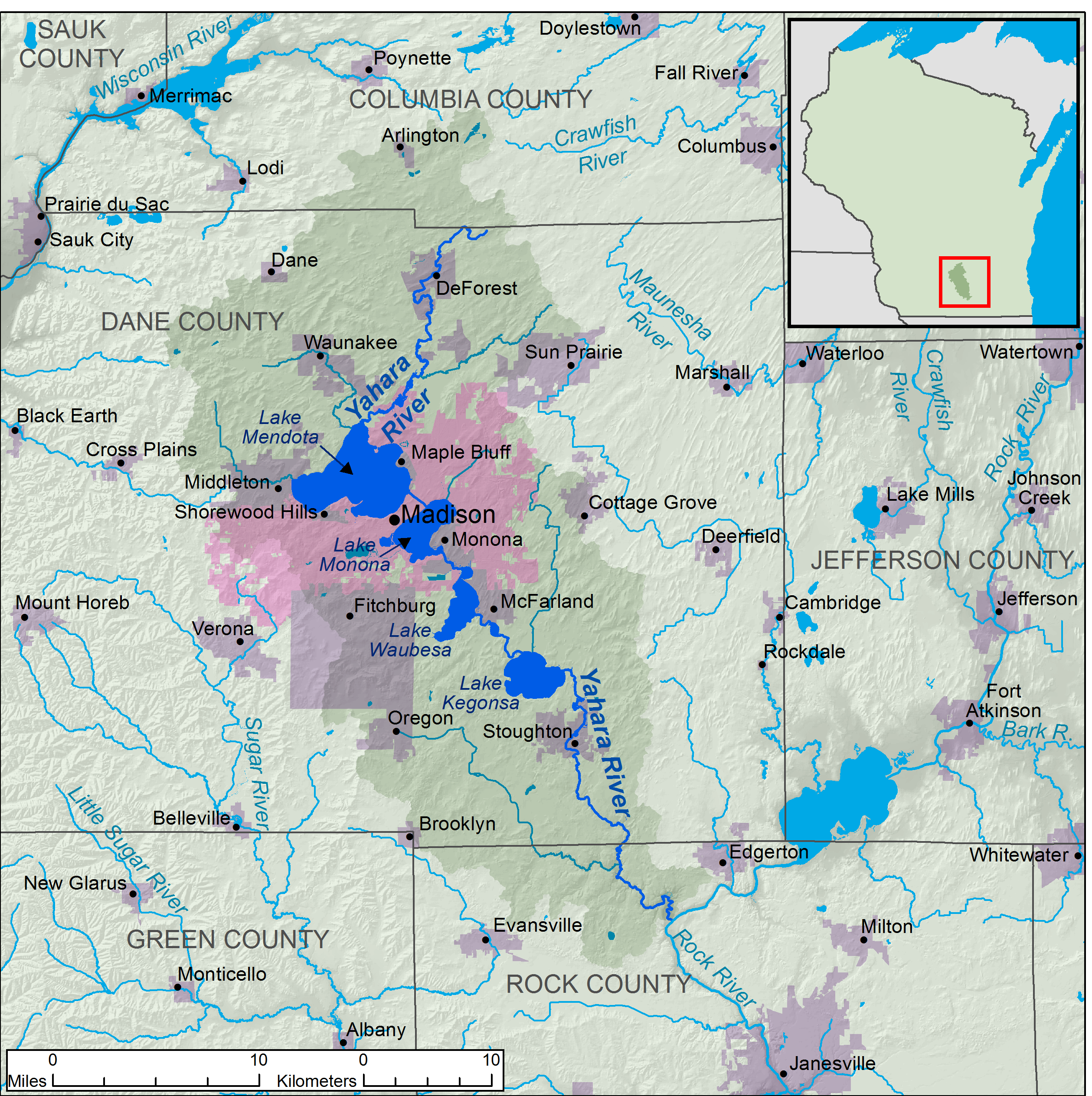 A map of the Yahara River and its watershed (USGS HUC-10 codes 0709000205, 0709000206, 0709000207, 0709000208, and 0709000209), in Dane, Columbia, and Rock counties in Wisconsin.